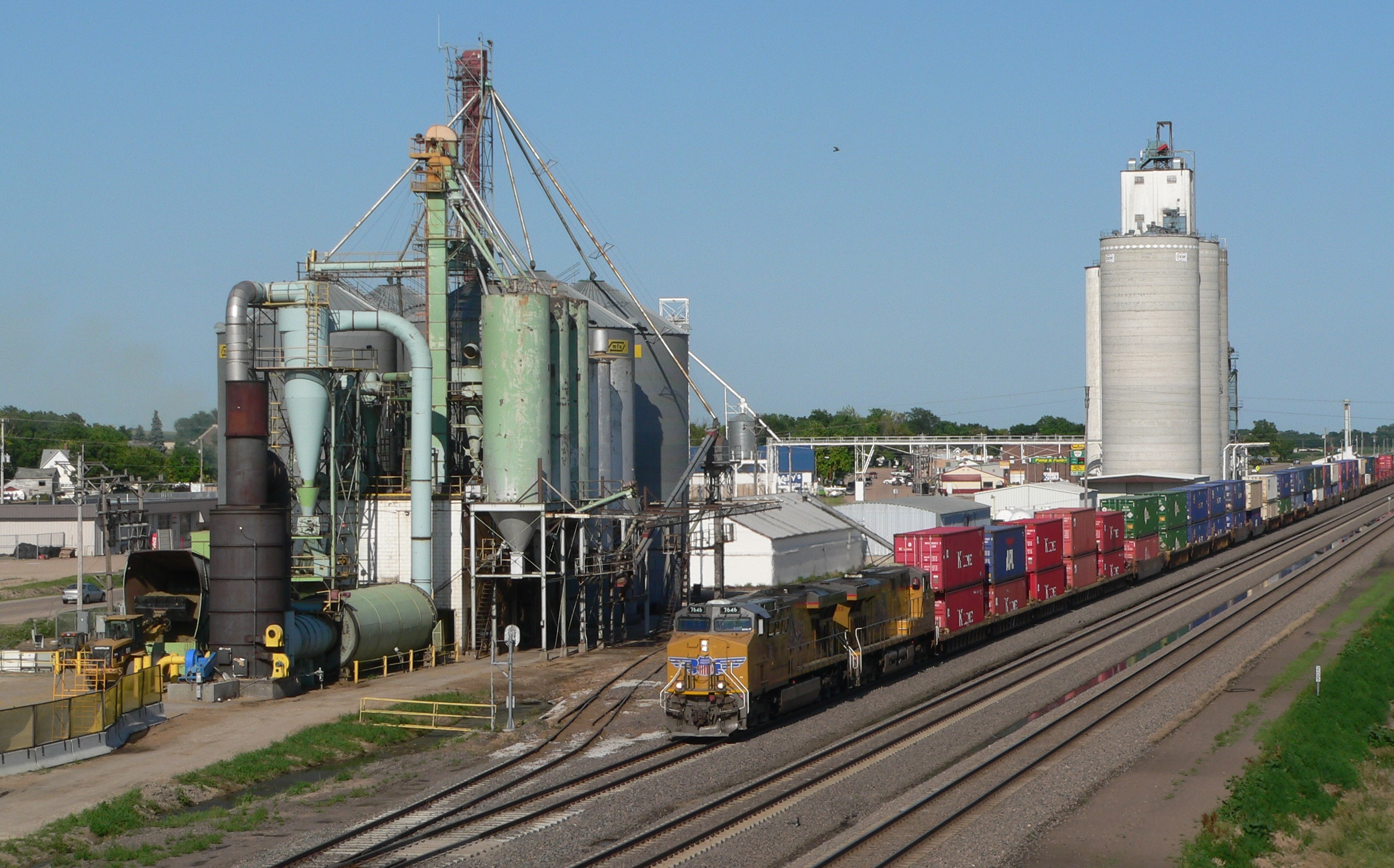 Elm Creek, Nebraska; seen looking northeast from overpass at west end of town, carrying U.S. Highway 183 over U.S. Highway 30 (just visible at lower left of picture, behind alfalfa mill) and the Union Pacific Railroad.